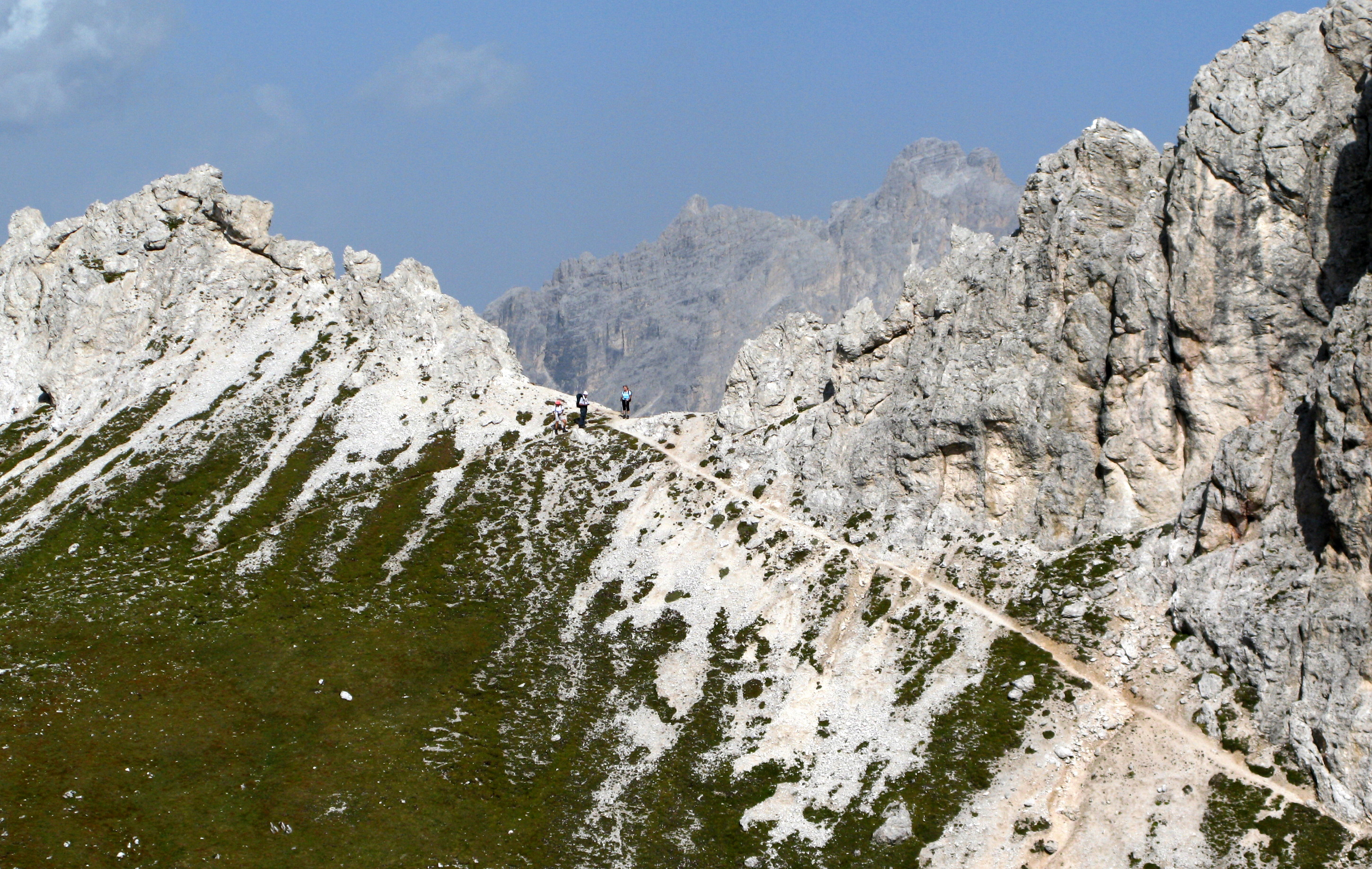 Forcella Ciadin del Loudo-Path N°223, Faloria, Cortina d'Ampezzo, Belluno, Italia